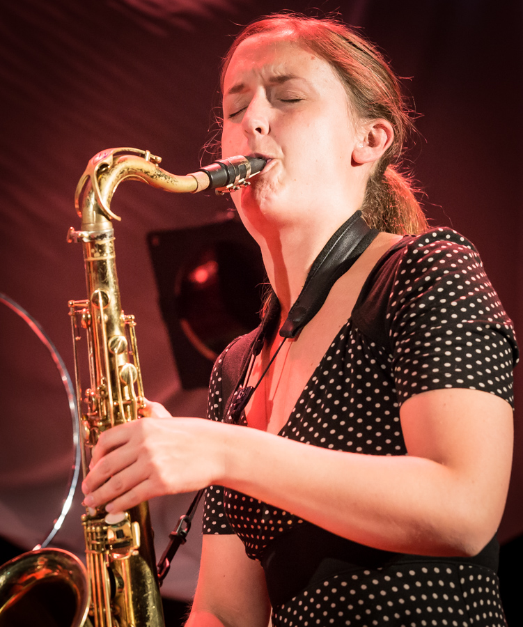 Hanna Paulsberg performs with Ellen Andrea Wang at the stage of Sentralen. The concert was part of the Oslo Jazz Festival in Norway and took place on 18. August 2016. Lineup: Ellen Andrea Wang (double bass) Jon Balke (piano) Hanna Paulsberg (saxophone) Andreas Ulvo (keyboard) Erland Dahlen (drums)